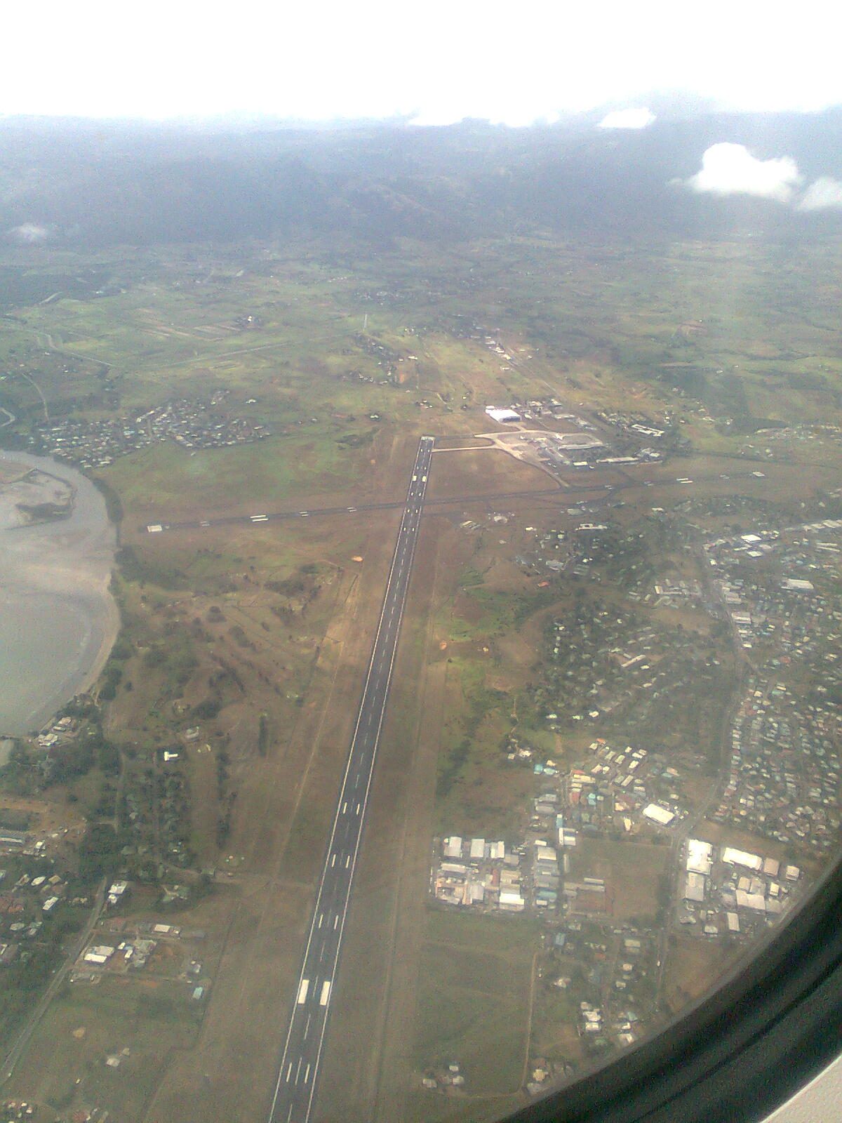 Aerial photograph of Nadi International Airport from the southwest. Runway 02 is in the middle of the photo.